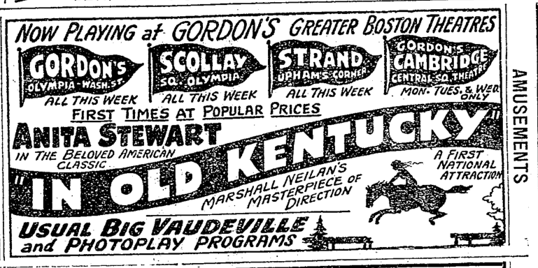 Advertisement for the film In Old Kentucky at Gordon's theatres in the area of Boston, Massachusetts, USA.